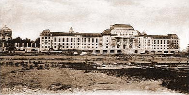 US Naval Academy. Bancroft Hall. Photo between 1904 and 1908.